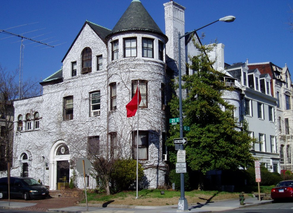 Embassy of Morocco in Washington. Taken by SimonP in April, 2005